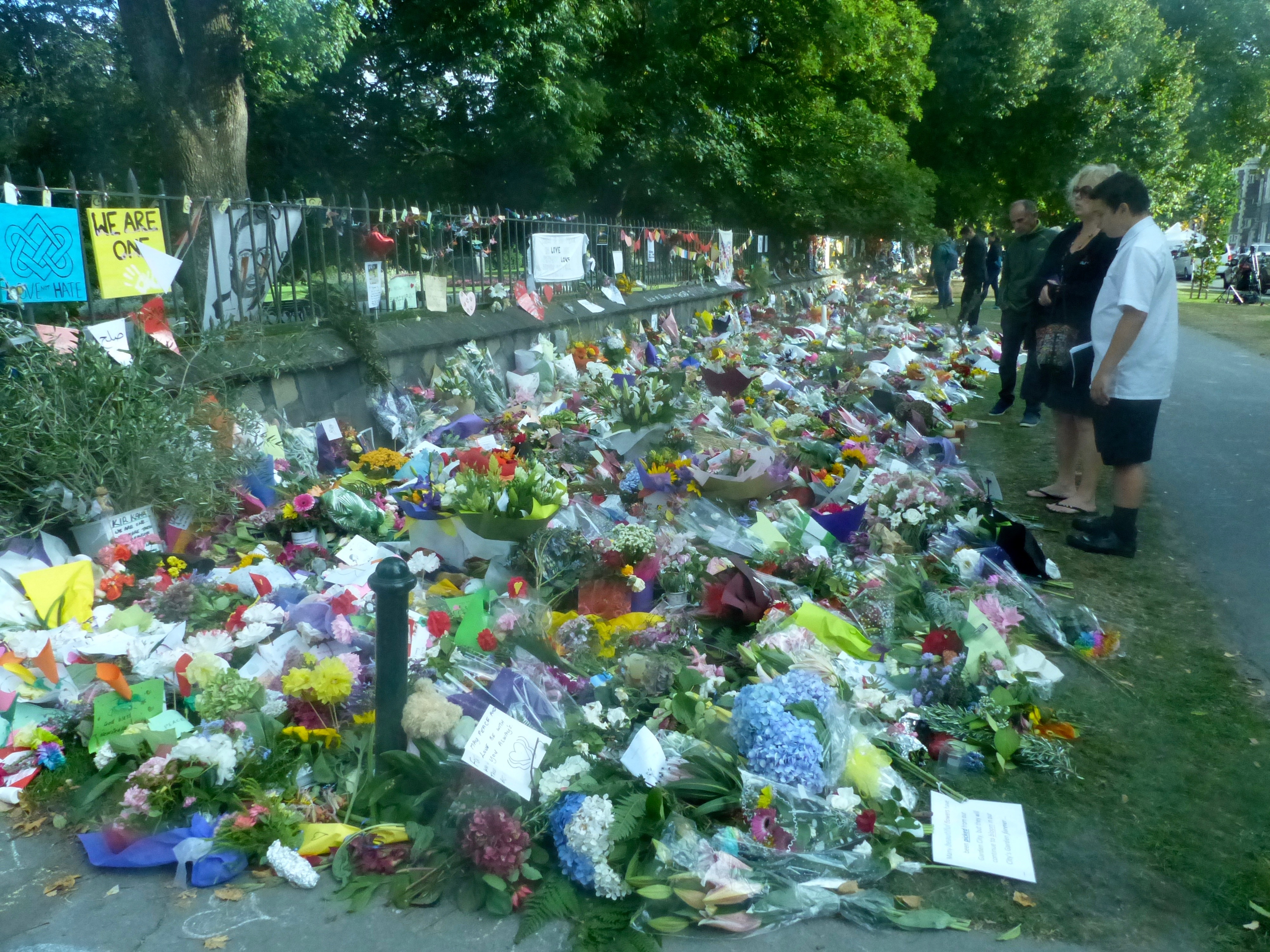 Floral tributes at the Christchurch Botanic Gardens in response to the Christchurch mosque shootings.